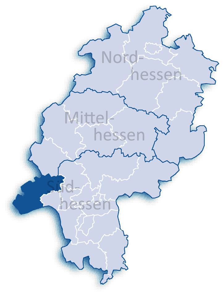 The map shows the district Rheingau-Taunus-Kreis. A district in Hesse